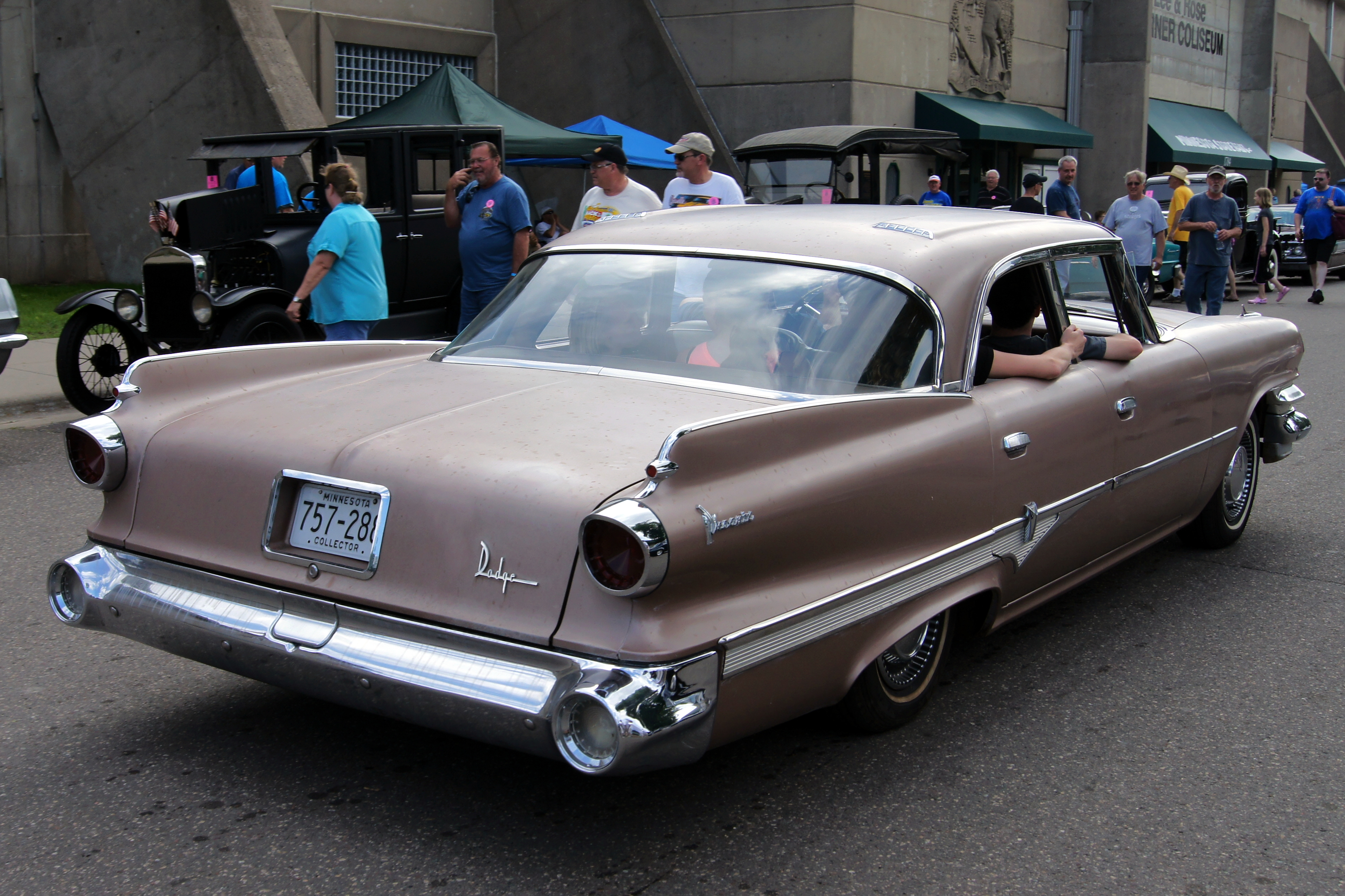 MSRA “BACK TO THE 50′s” 40th ANNIVERSARY June 21-23, 2013 State Fairgrounds St. Paul Minnesota More Car Pictures